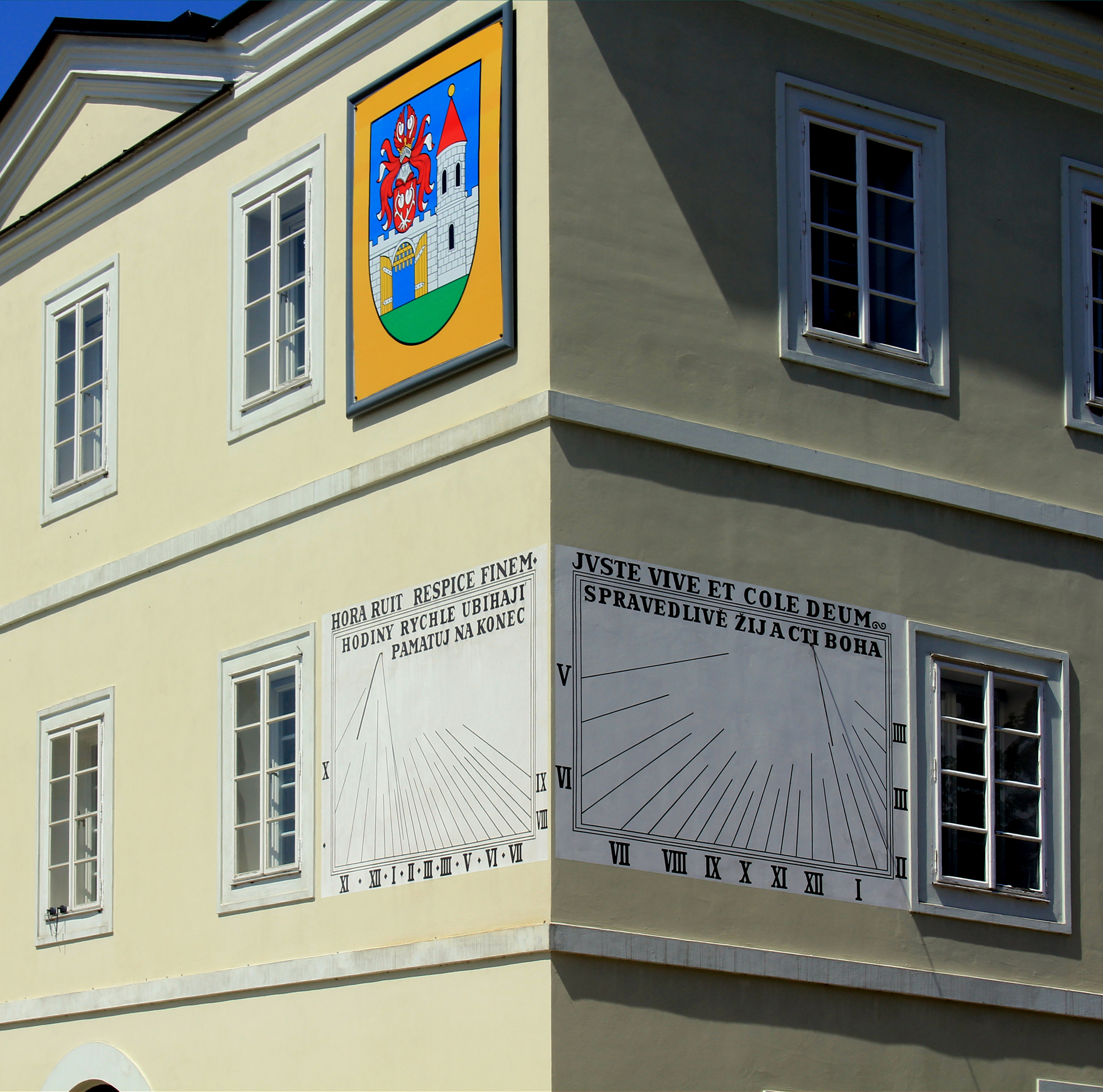 Sundials and municipal coat of arms on Museum building on square of town Nové Město nad Metují, eastern Bohemia, Czech Republic